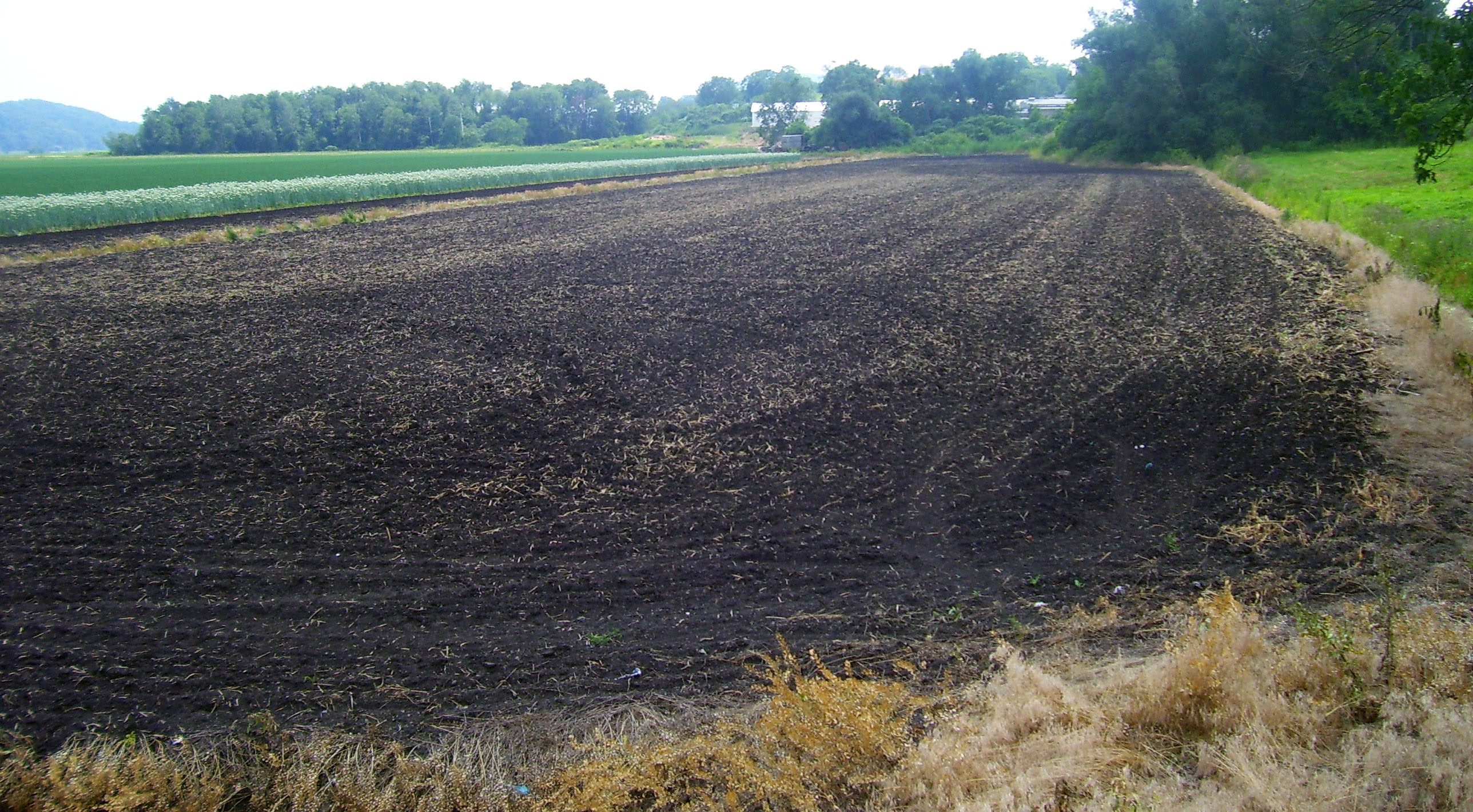 Black dirt in the Black Dirt Region of Orange County, NY, USA